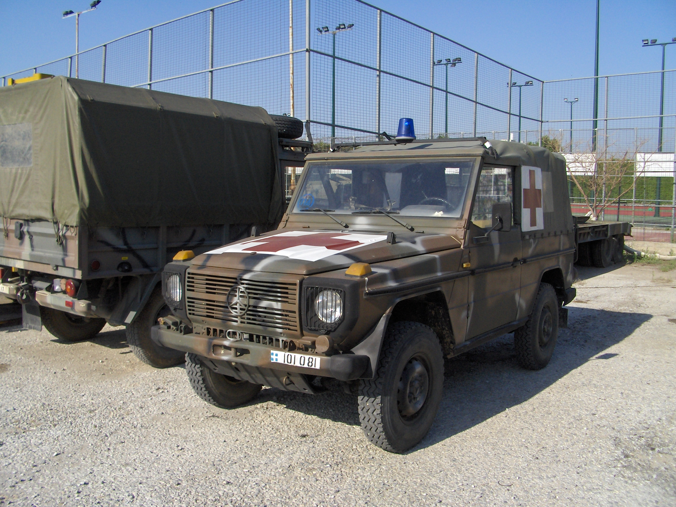 Ambulance vehicle of the Greek army (Greek Mercedes-Benz G-Class W462)